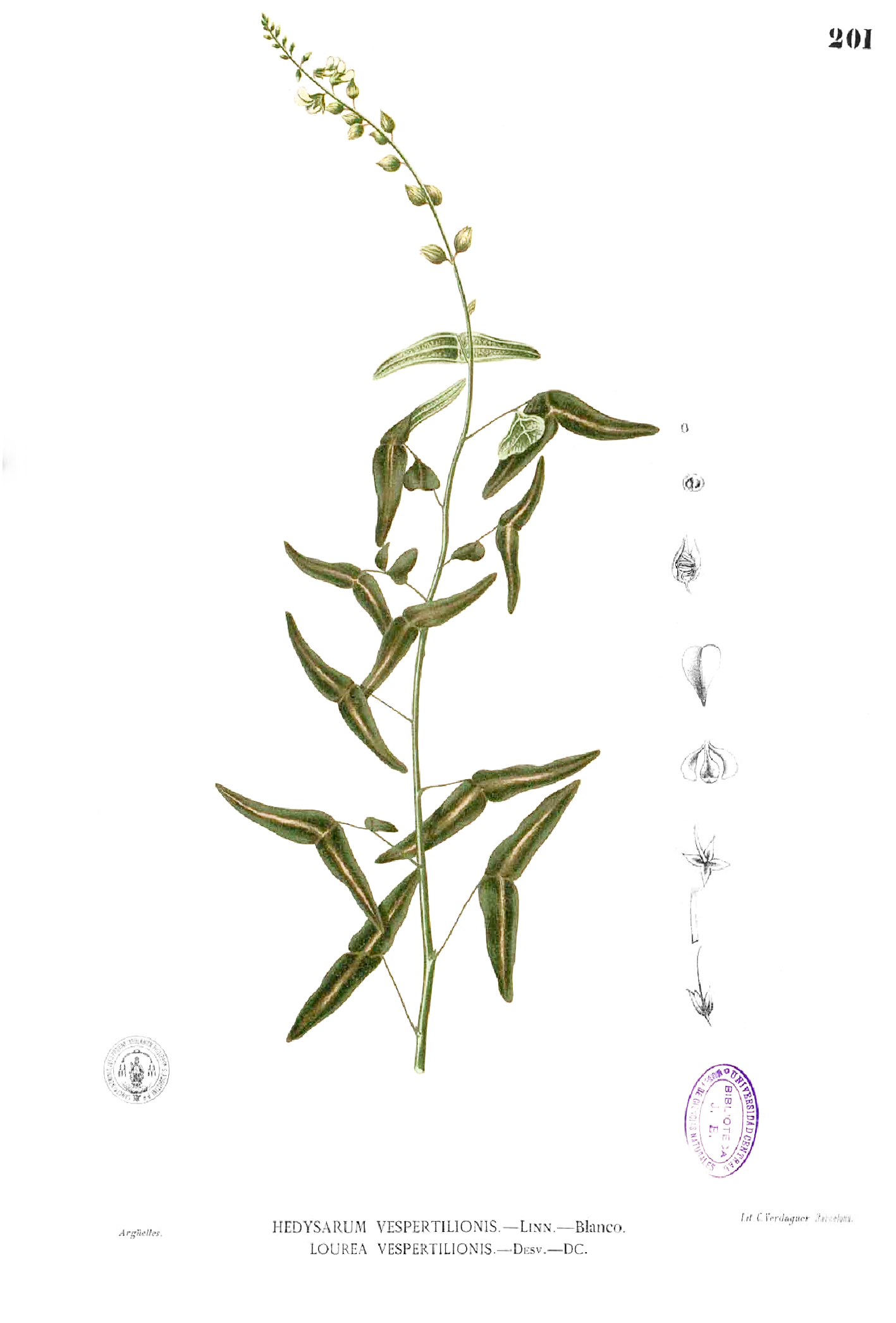 Plate from book